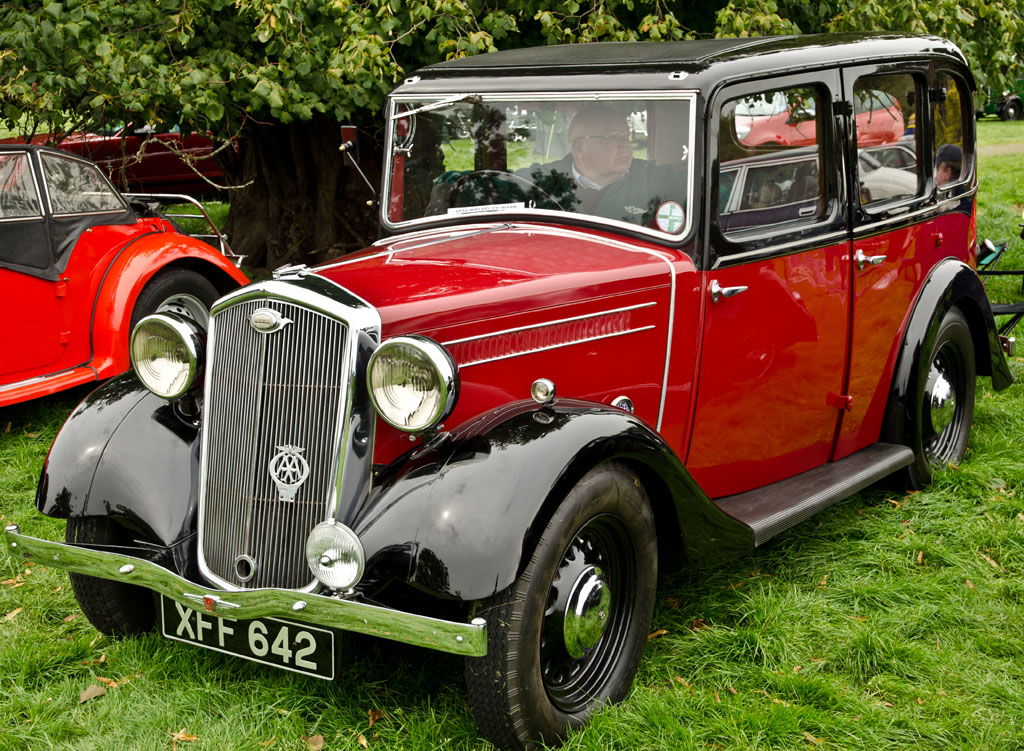 Wolseley Wasp 1936(DVLA) first registered 19 February 1936, 1069 cc Arley Hall Classic Car Show 23/09/2012